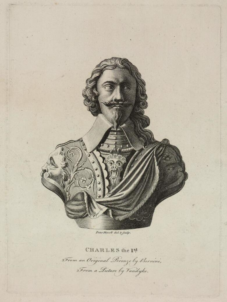 A portrait from the Welsh Portrait Collection at the National Library of Wales. Depicted person: Charles I of England – monarch of the three kingdoms of England, Scotland, and Ireland